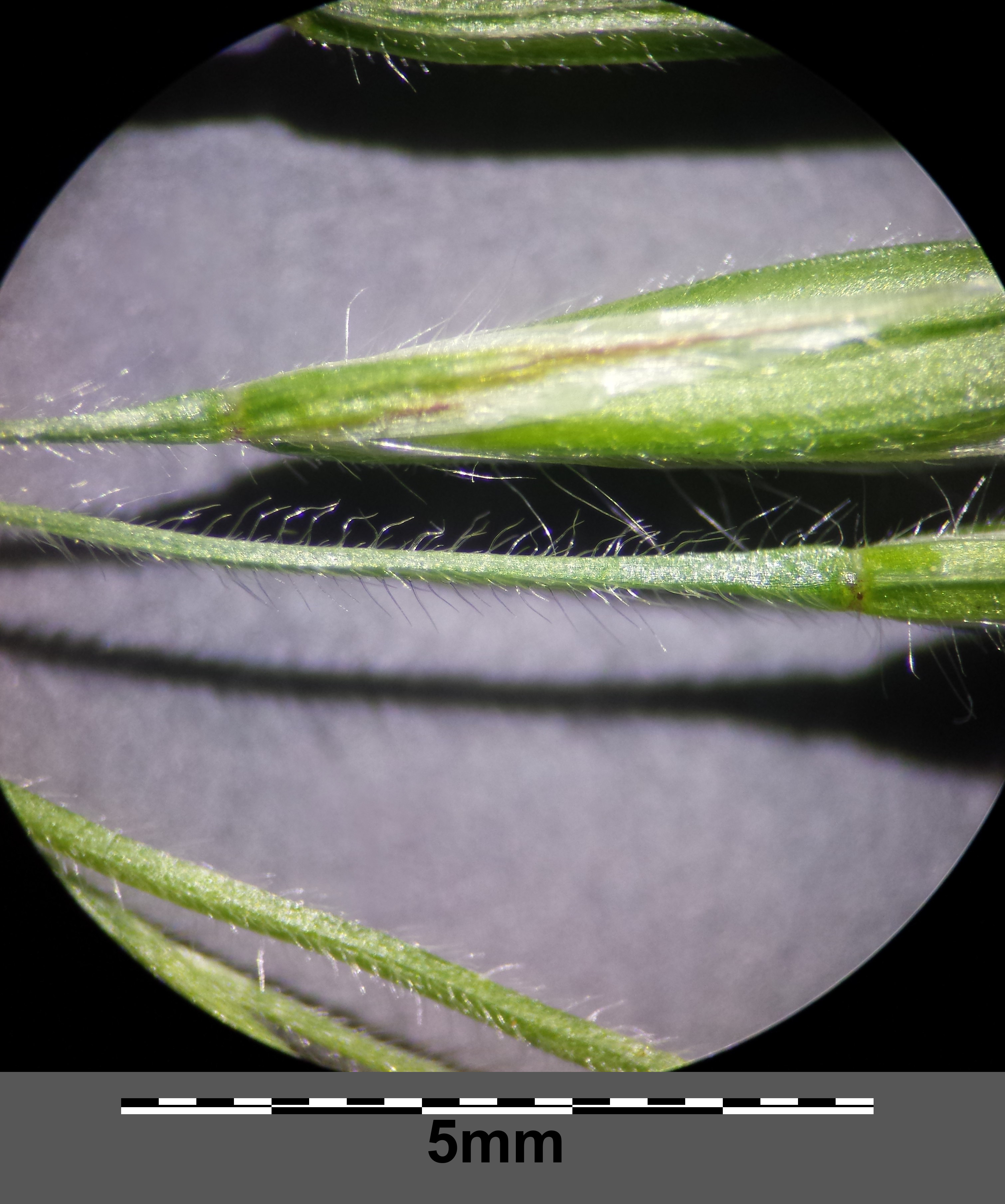 Panicle (detail) Taxonym: Bromus tectorum ss Fischer et al. EfÖLS 2008 ISBN 978-3-85474-187-9 Location: Jedlersdorf rail station, Vienna-Floridsdorf - ca. 160 m a.s.l. Habitat: ruderal area